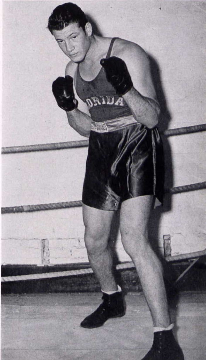 Photograph of University of Florida athlete Forrest Ferguson (Forrest spelled with two r's in the photo caption), namesake of the Fergie Ferguson Award